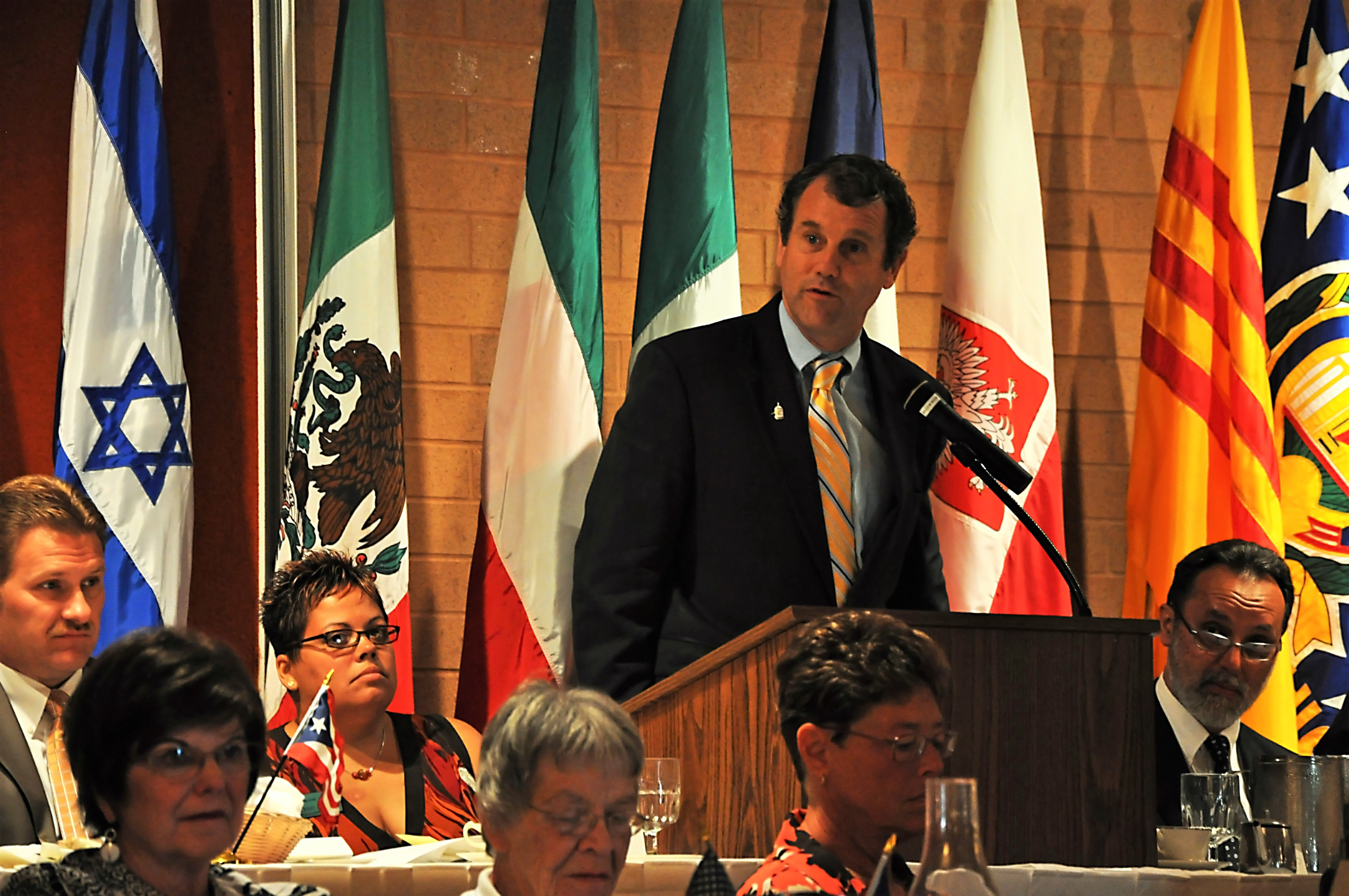 Lorain, Ohio